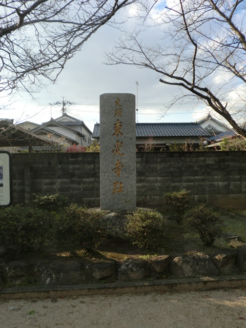 Toko-ji(Temple) in Ukiha city. Goto Kakuji(scientist) was born in here.